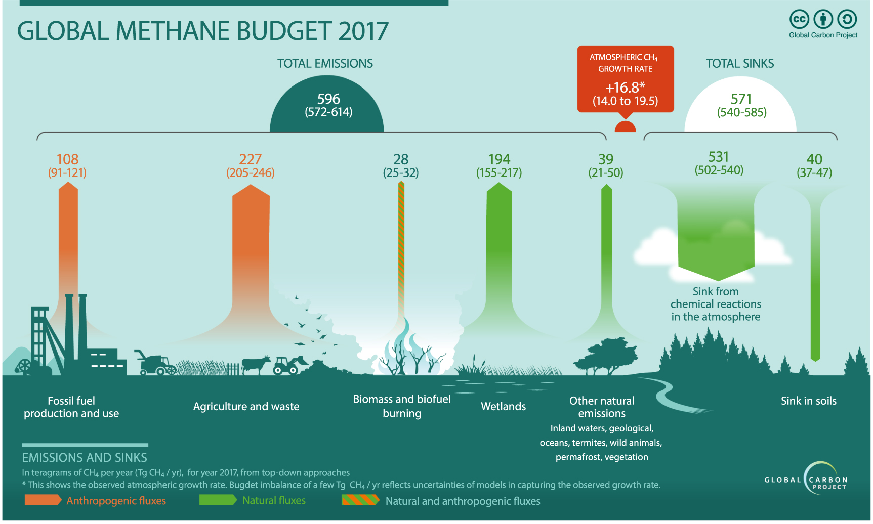 The global methane budget for year 2017 based on top-down methods for natural sources and sinks (green), anthropogenic sources (orange), and mixed natural and anthropogenic sources (hatched orange-green for 'biomass and biofuel burning') by the Global Carbon Project